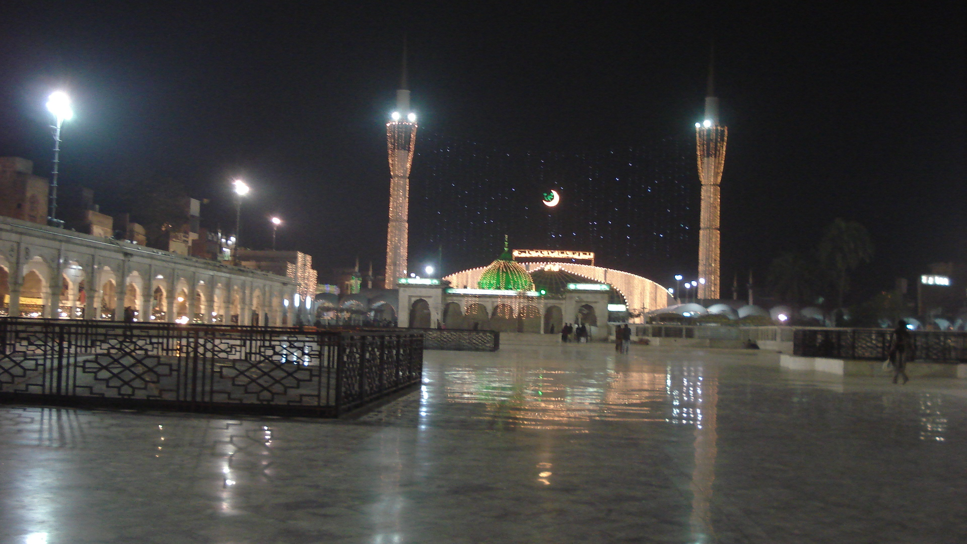 Data Durbar Complex This is a photo of a monument in Pakistan identified as the PB-P-105